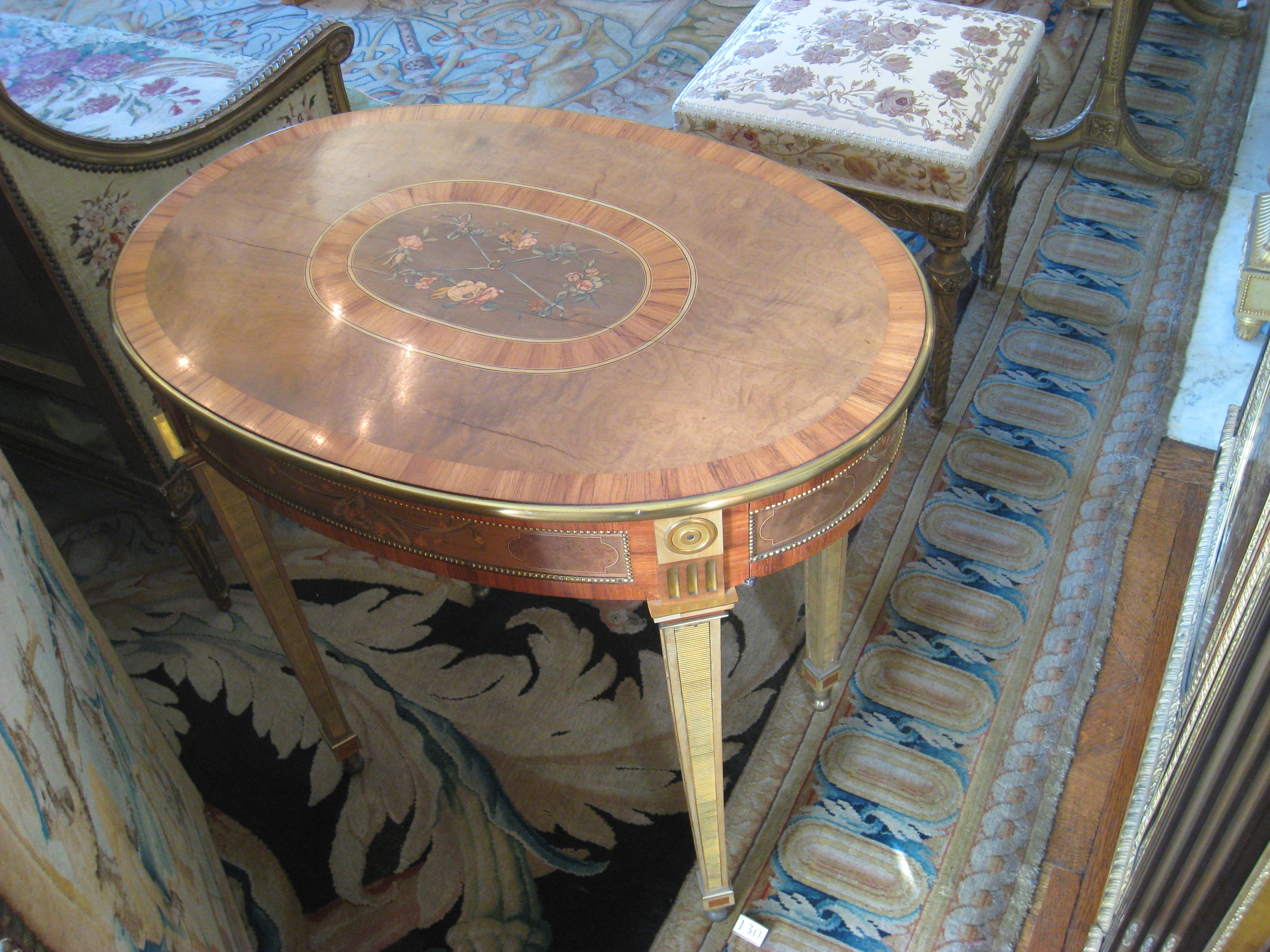 Musée Nissim de Camondo, Paris, France - table by David Roentgen (circa 1780-1790). The original work is old enough so that copyright (if any) has long since expired. The museum imposed no restrictions on photography (except prohibiting flash) in writing and when I explicitly asked; thus the original image appears free of copyright restrictions.